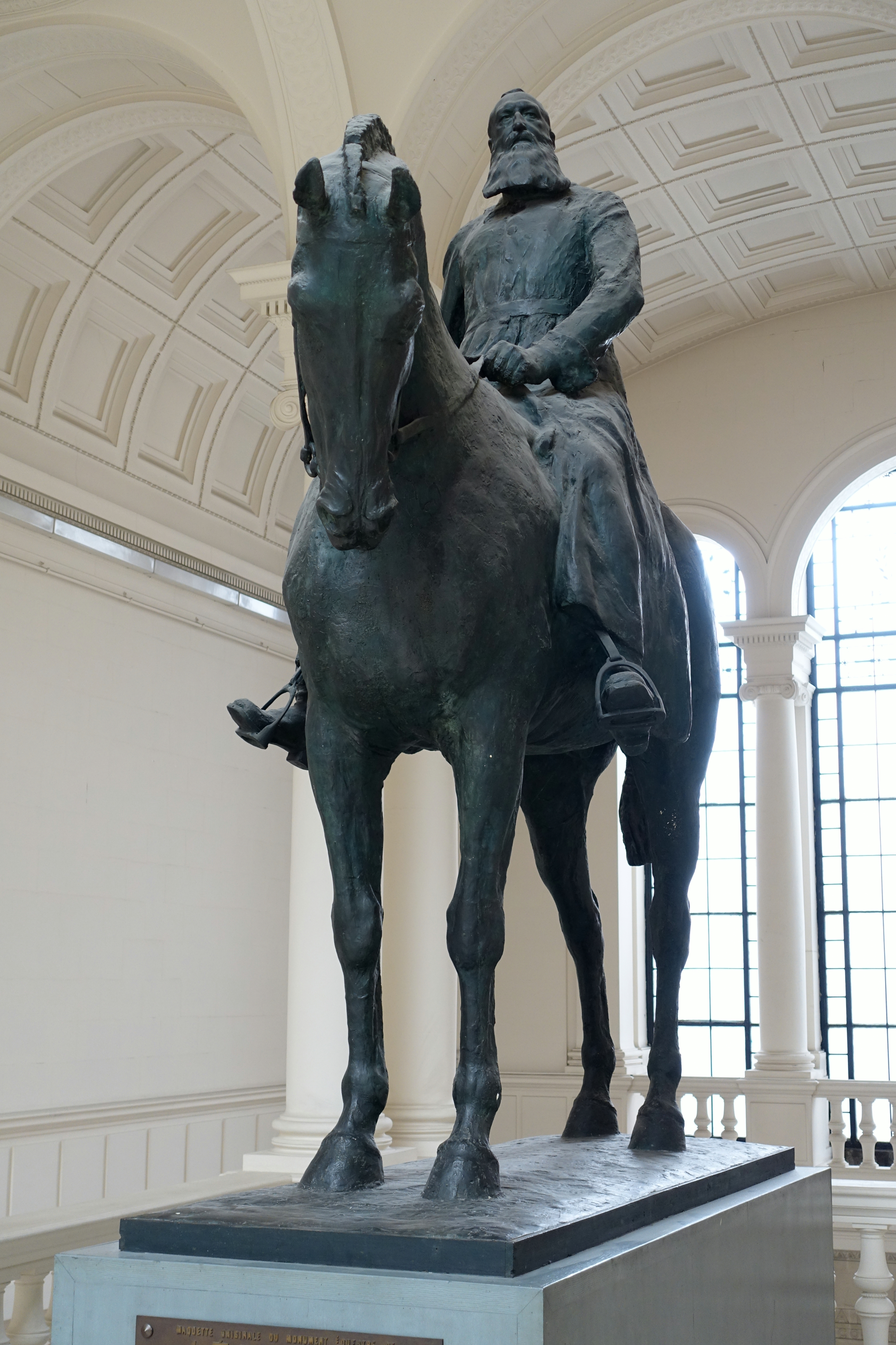 Equestrian Statue of Leopold II by Thomas Vinçotte (1850–1925) - Cinquantenaire Museum - Brussels, Belgium. This work is in the public domain because the sculptor died more than 70 years ago.